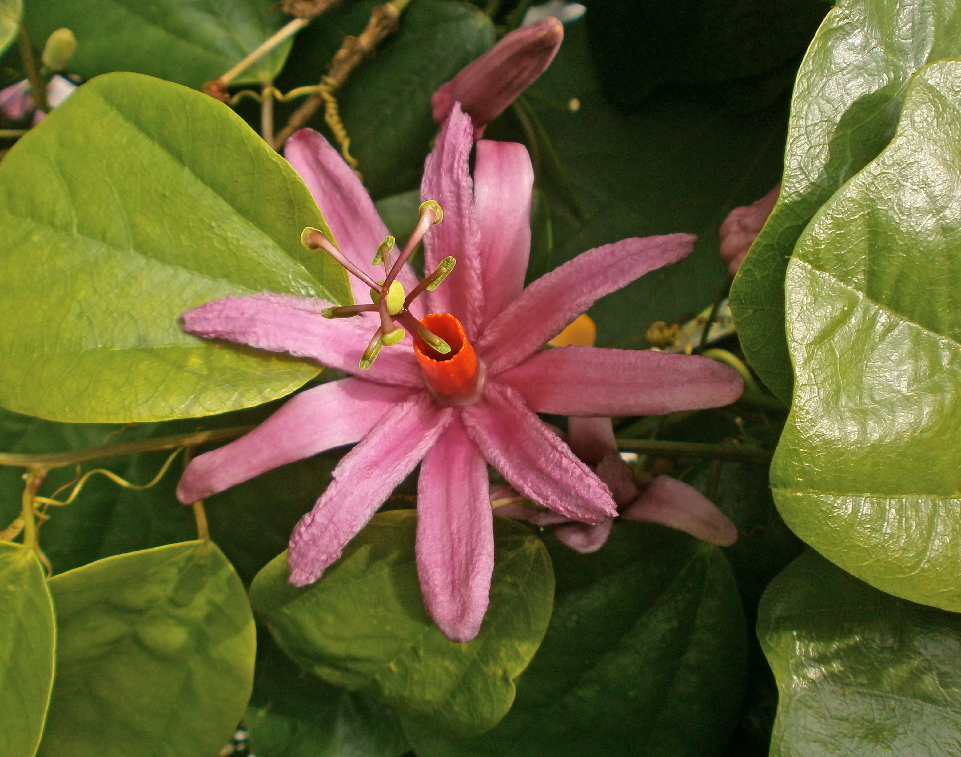 Passiflora tulae Urb. (1899), Mountain love in the mist, Flower; Mainau, Lake Constance, Germany.